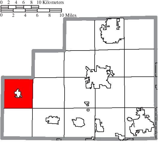 Map of the municipal and township boundaries of Medina County, Ohio, United States, as of the 2000 census, with the location of Spencer Township highlighted. Township borders are shown only in unincorporated areas in order to differentiate incorporated and unincorporated areas more clearly.